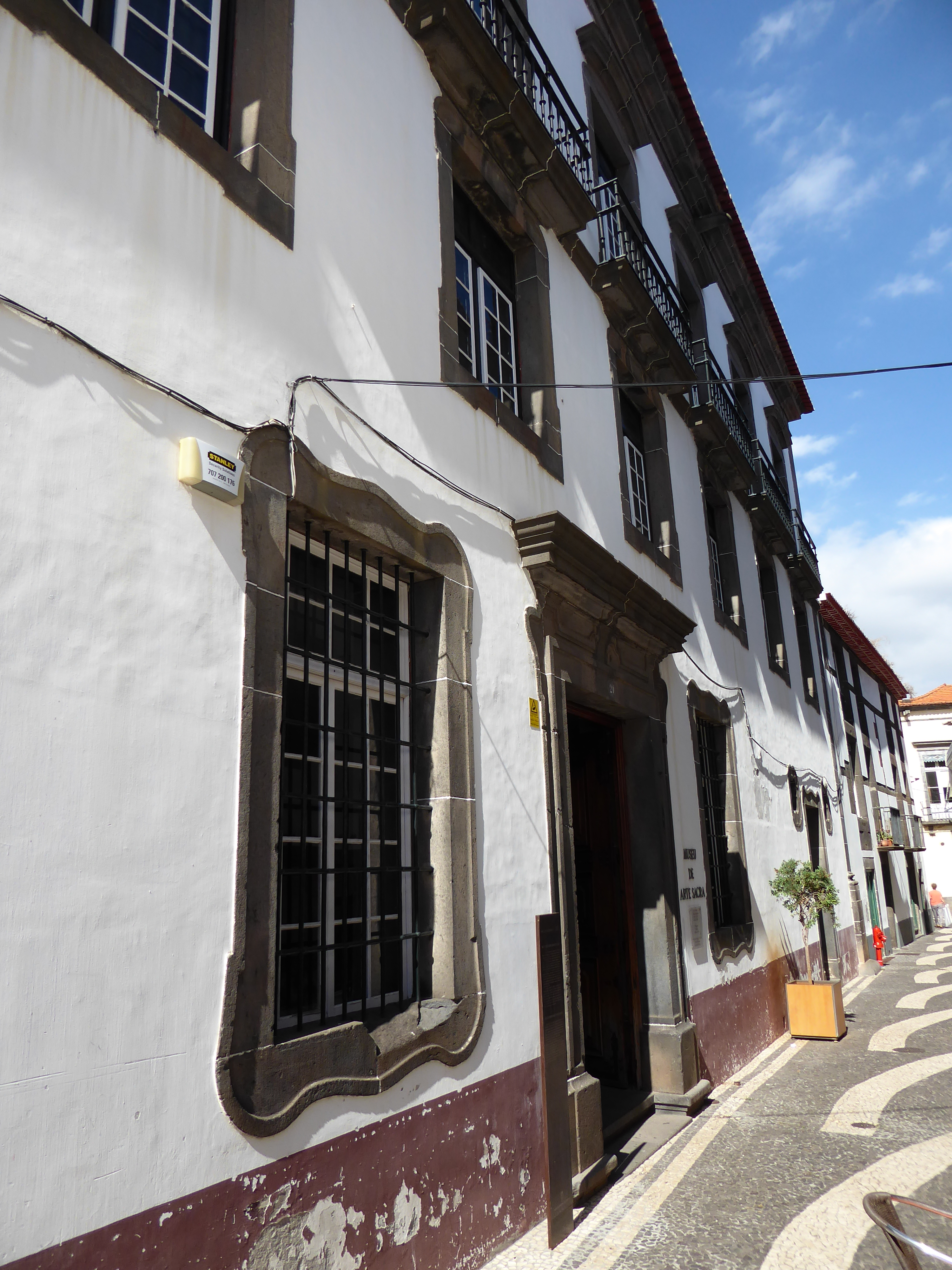 Museu de Arte Sacra do Funchal (building, outside view)